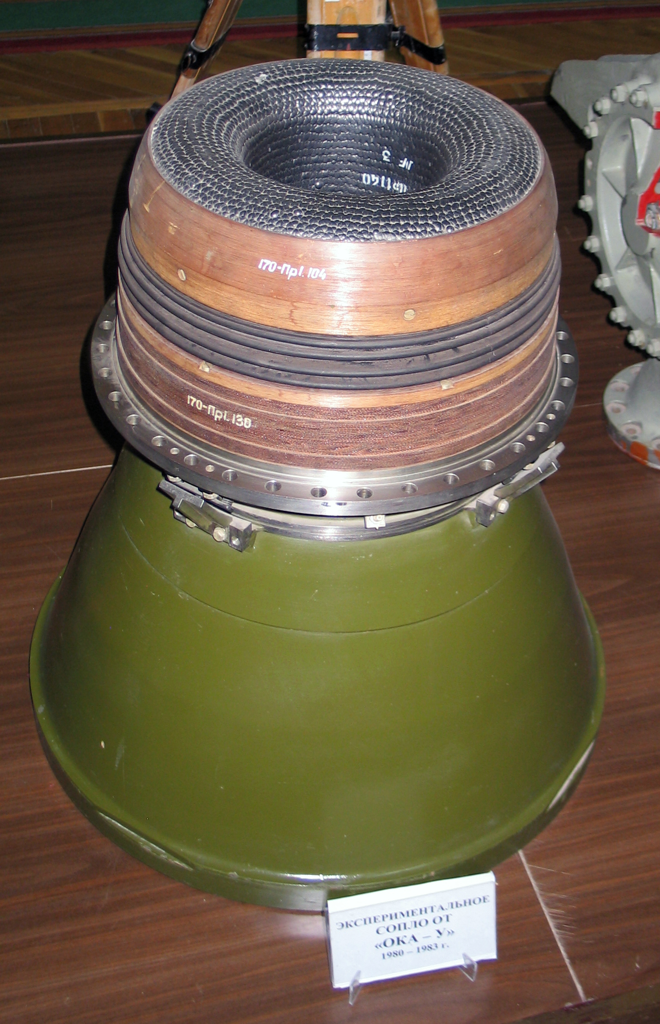 Experimental nozzle from Soviet Oka-U missile on the stand of Kapustin Yar museum in Znamensk, Russia. Tested from 1980 to 1983.